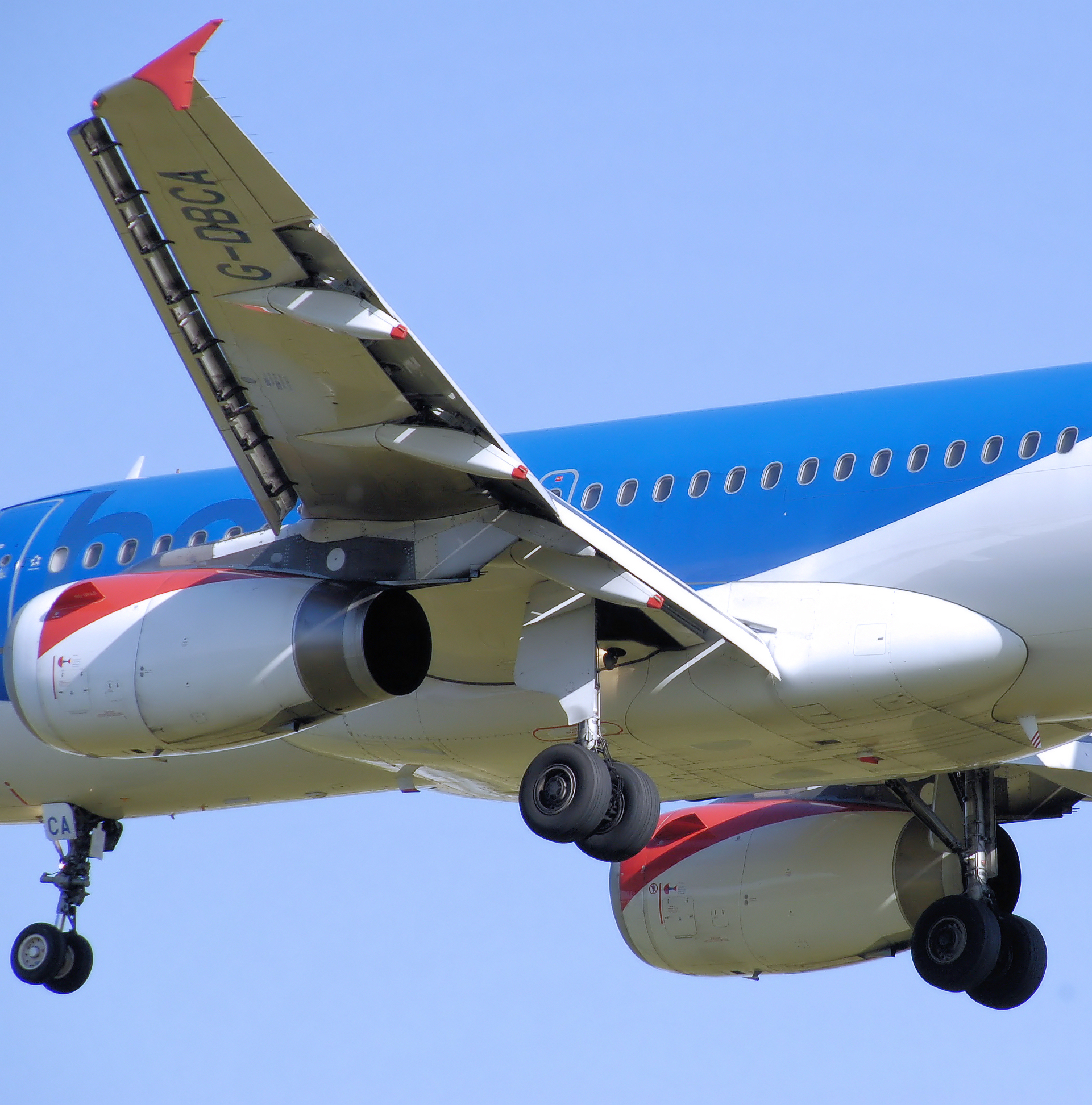 bmi Airbus A319-100 (G-DBCA) lands at London Heathrow Airport, England.